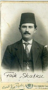 Faik Shatku